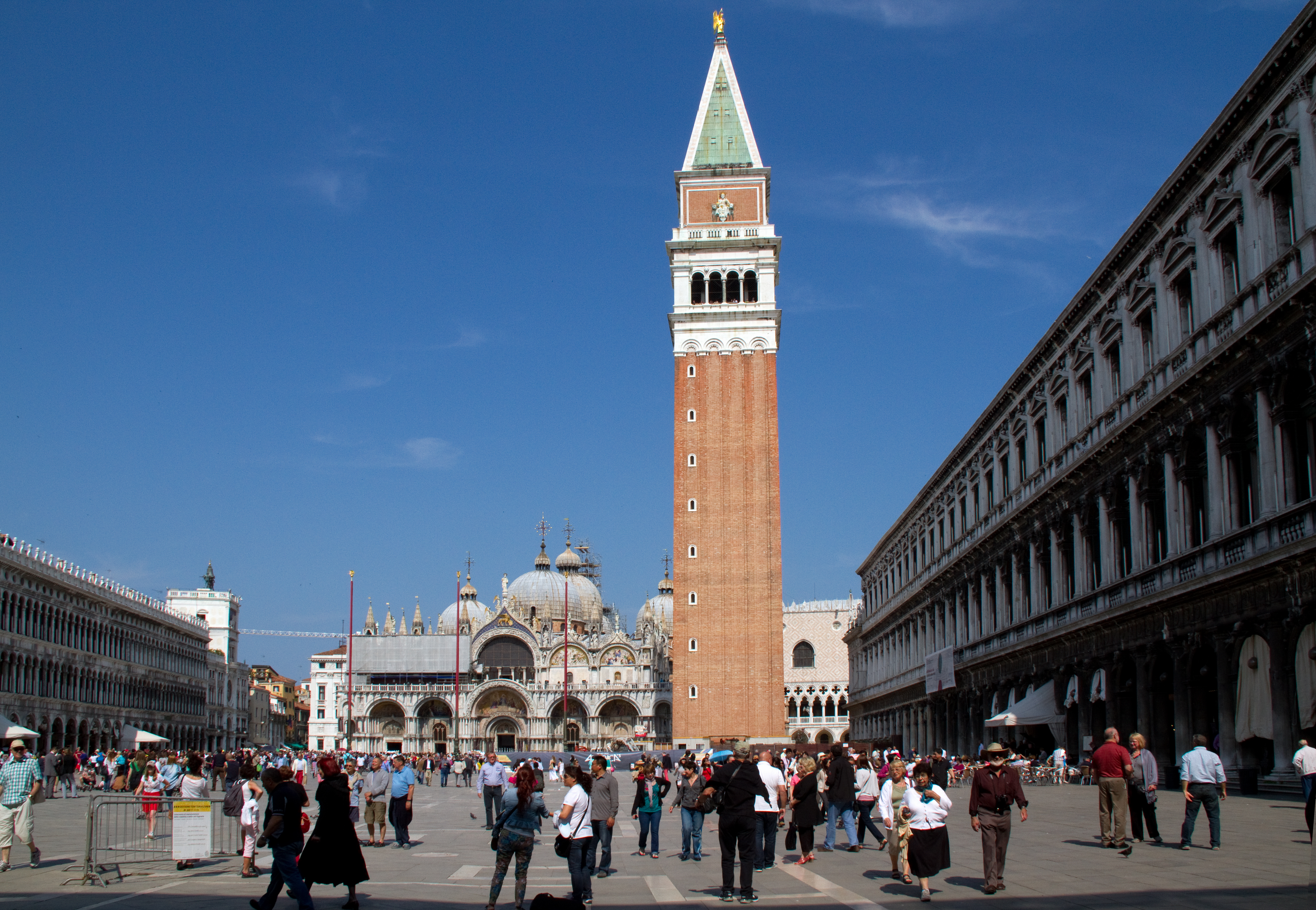 St Mark's Square 3